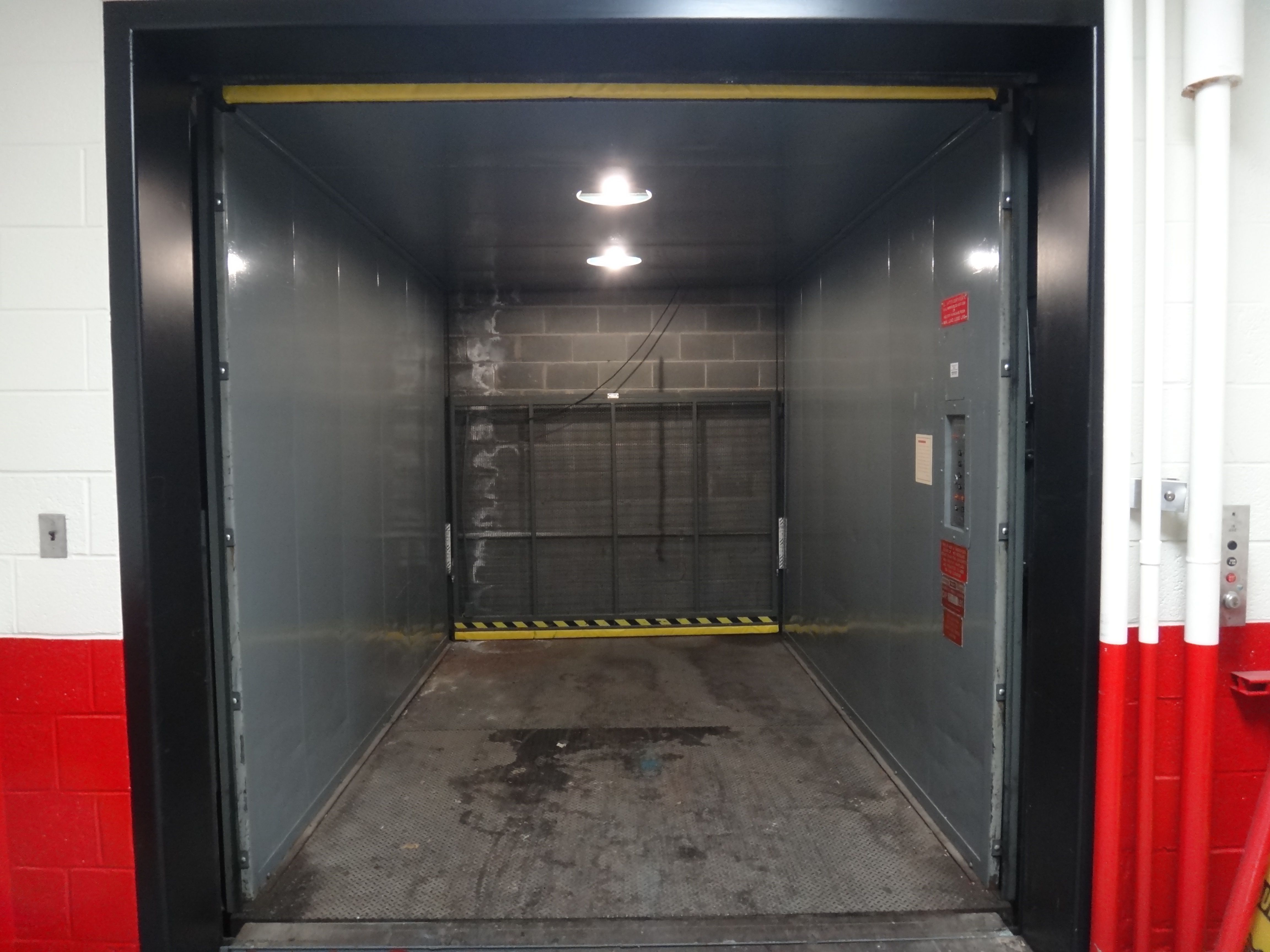 This is the interior of a freight elevator